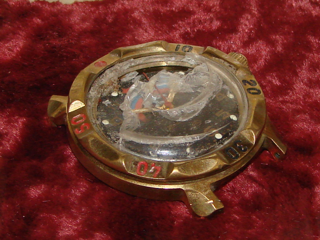 Wrist watch of Hero of Russia Andrey Zavituhin brought from the place of his death